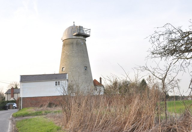 Disused tower mill in Church Road, White Roding, Essex, seen from the south